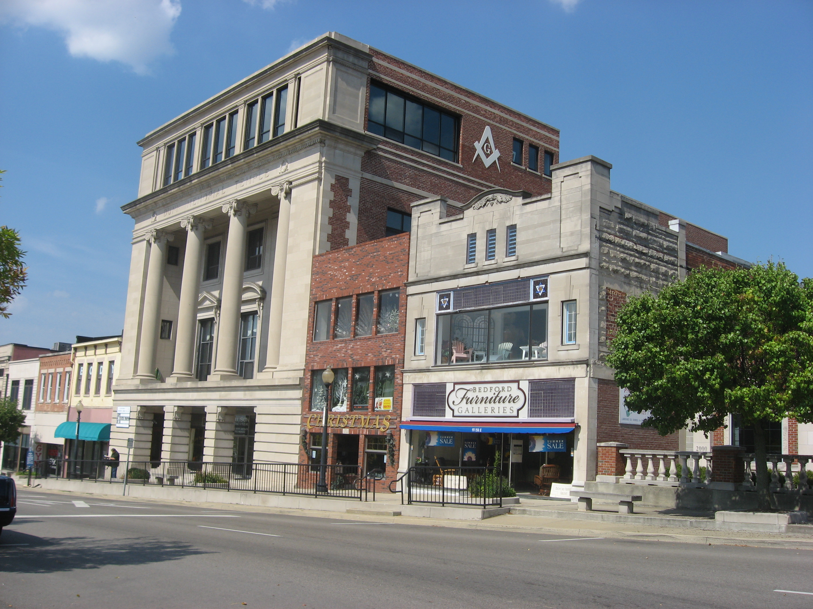 Buildings on the northern side of Fifteenth Street (U.S. Route 50) in downtown Bedford, Indiana, United States. These buildings are part of the Bedford Courthouse Square Historic District, a historic district that is listed on the National Register of Historic Places.